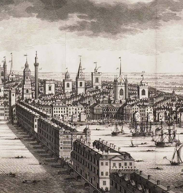 This section of a prospect of London published in 1710 shows Old London Bridge.